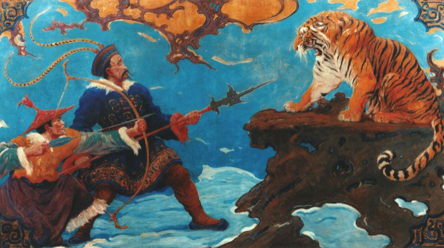 Manchurian Tiger holding Hunters at bay.